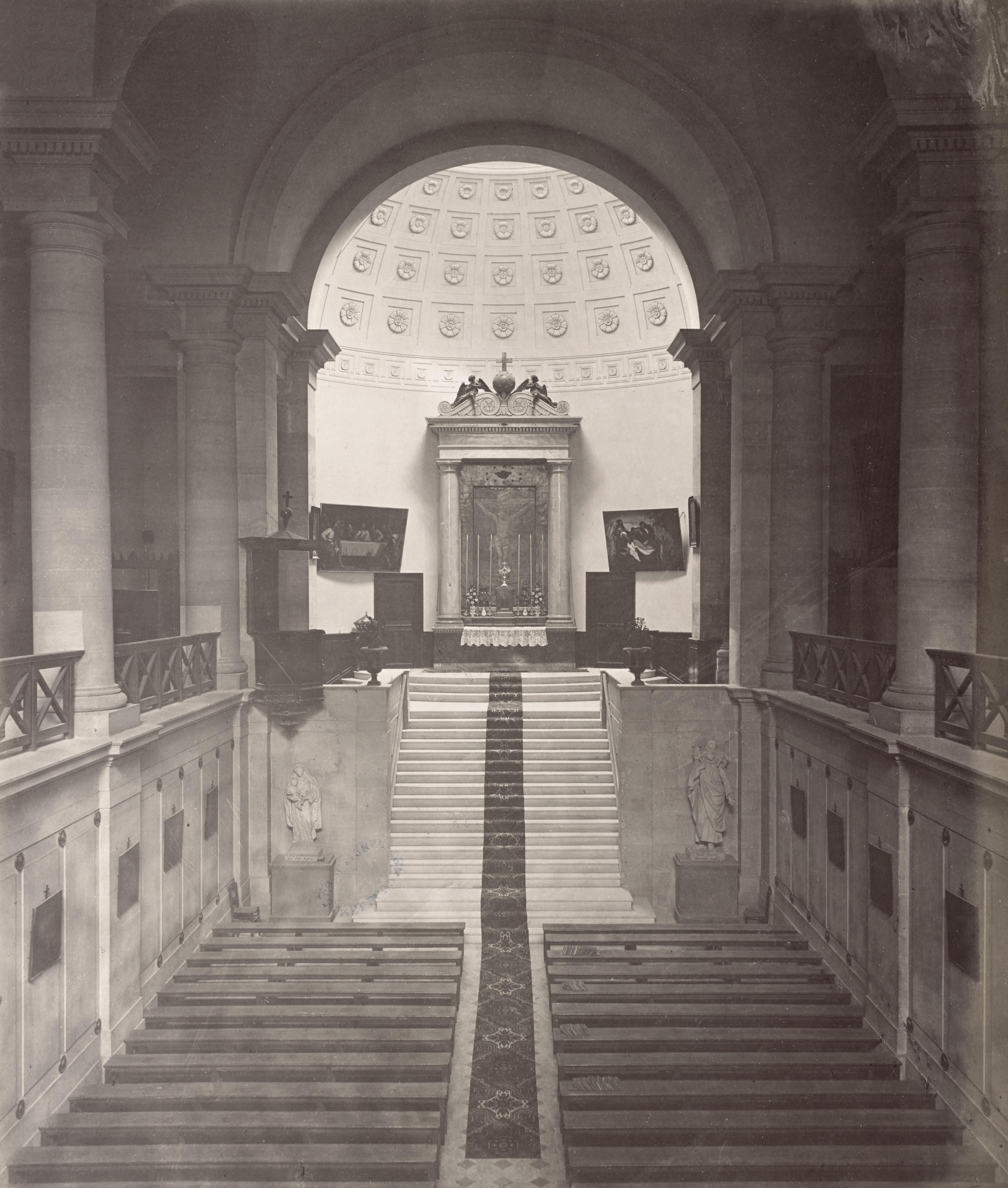 Prison de Sainte-Pélagie: Chapelle: Interior of prison showing an elevated view of the chapel with rows of bench seats and an altar on a raised sanctuary under a dome.